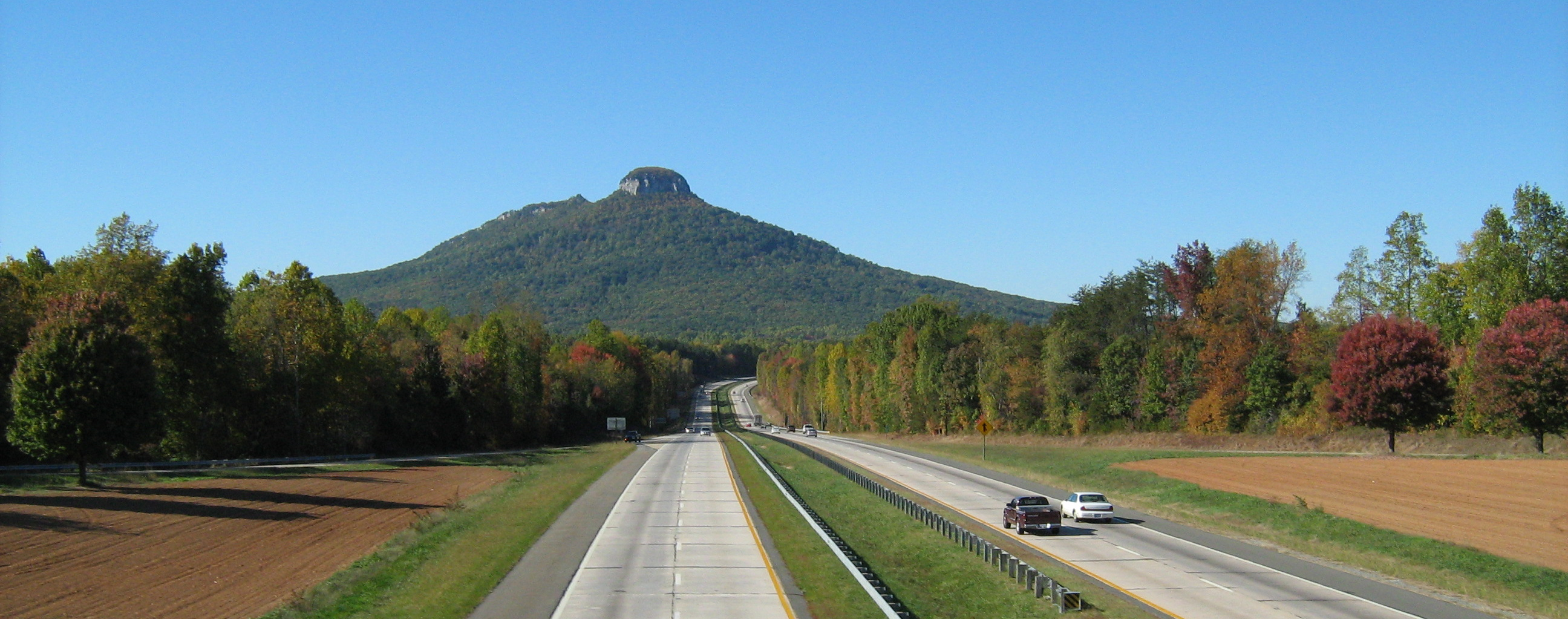 View north to Pilot Mountain in the distance from an overpass near Pinnacle over route US-52 in North Carolina, USA.